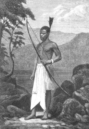 "Chuma", Livingstone's servant: of the Wahio Tribe "Chuma", Livingstone's servant: of the Wahio Tribe Chuma was released from slave traders and journey with Livingstone during his last 9 years of travel, He accompanied Susi on their epic march to return Livingstone's body, and accompanied Livingstone's remains to England. He afterwards served in mission work in the Nyassa country.